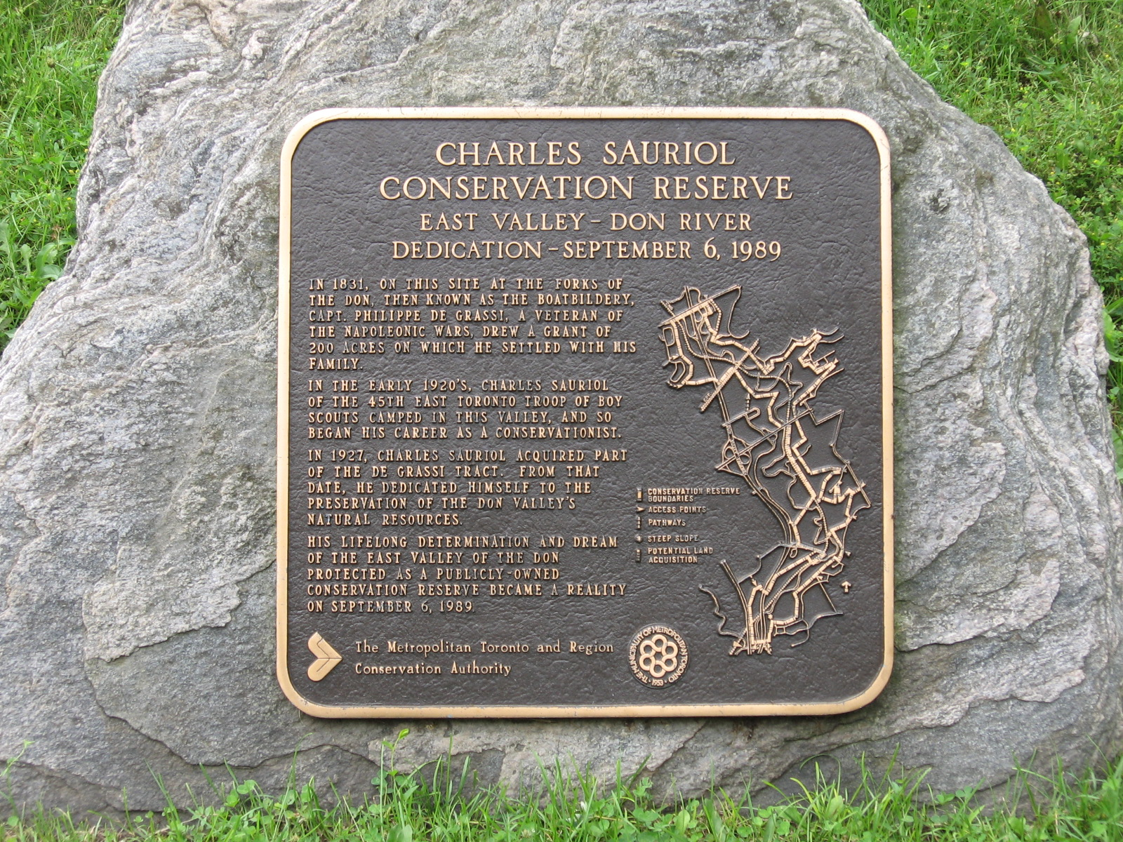 Commemorative plaque mounted on a rock at the south end of the Charles Sauriol Conservation Reserve in the Don River Valley in Toronto, Ontario